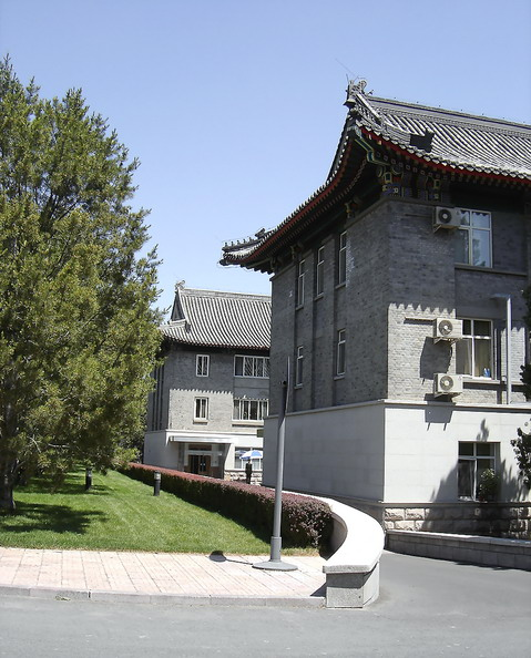 Zhongnanhai, Zhonghai, Beijing